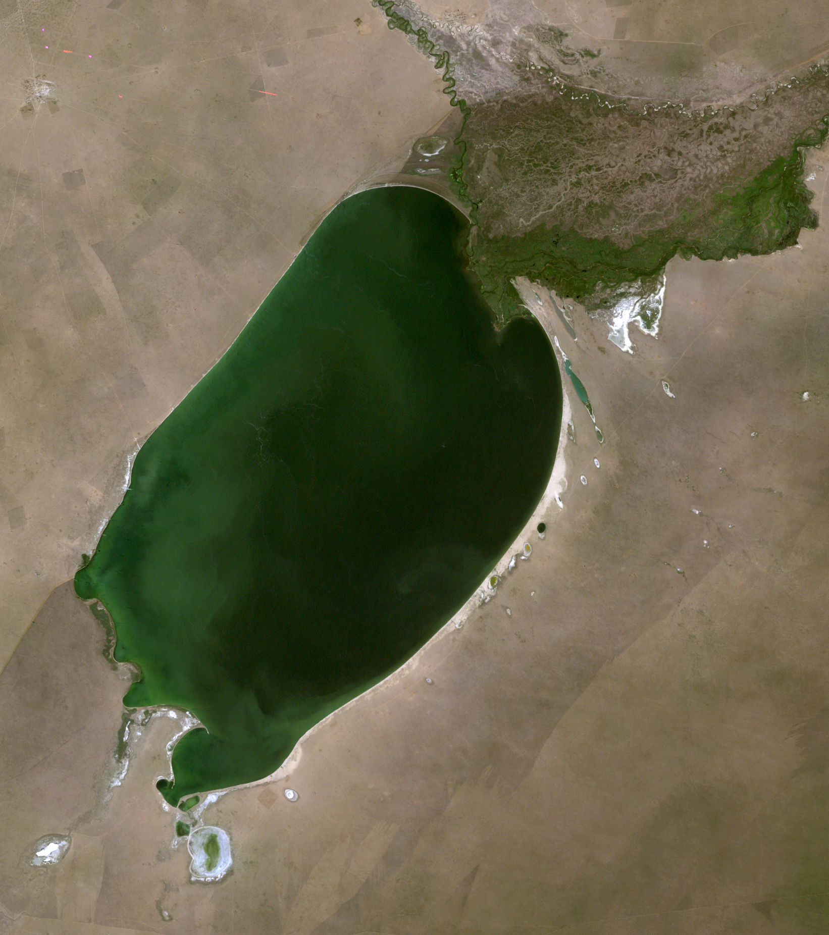 Buir Nuur lake in Eastern Mongolia (Dornod province) and in China (Inner Mongolia), LandSat-7 satellite image, 2005-08-9, near natural colors, 30 m resolution